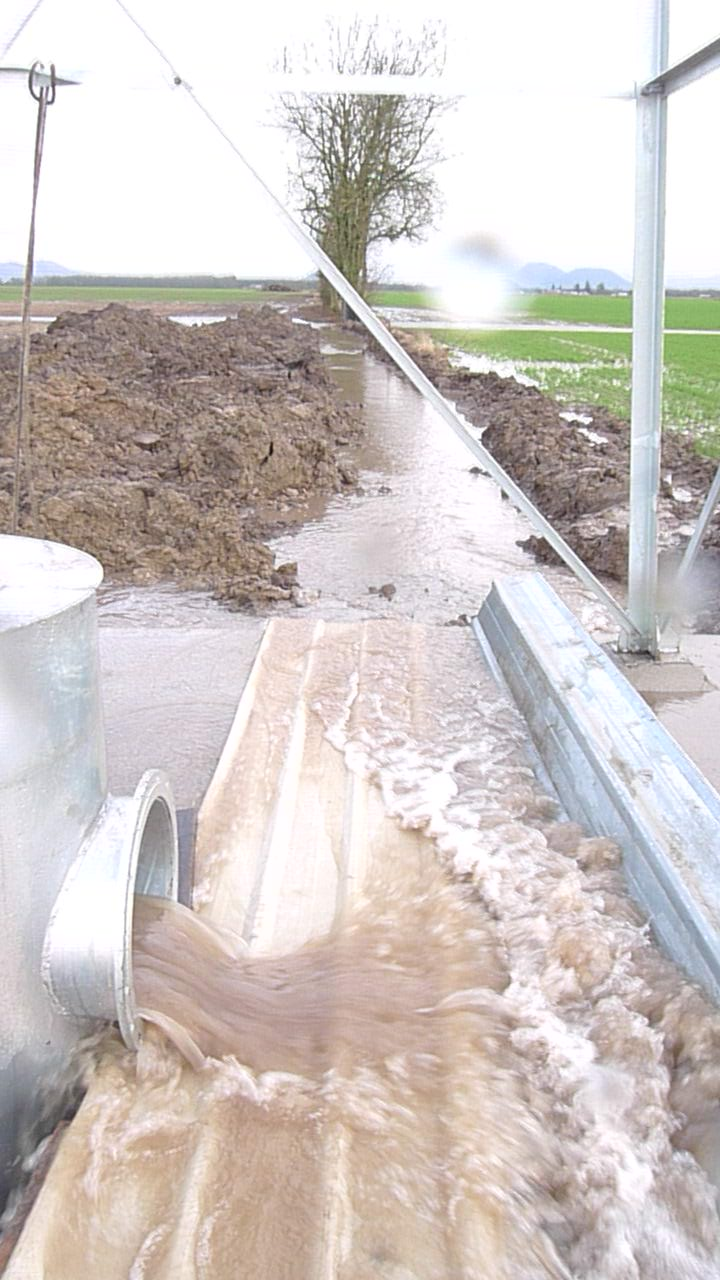 Water pouring from a large modern wind powered agricultural drainage pump.